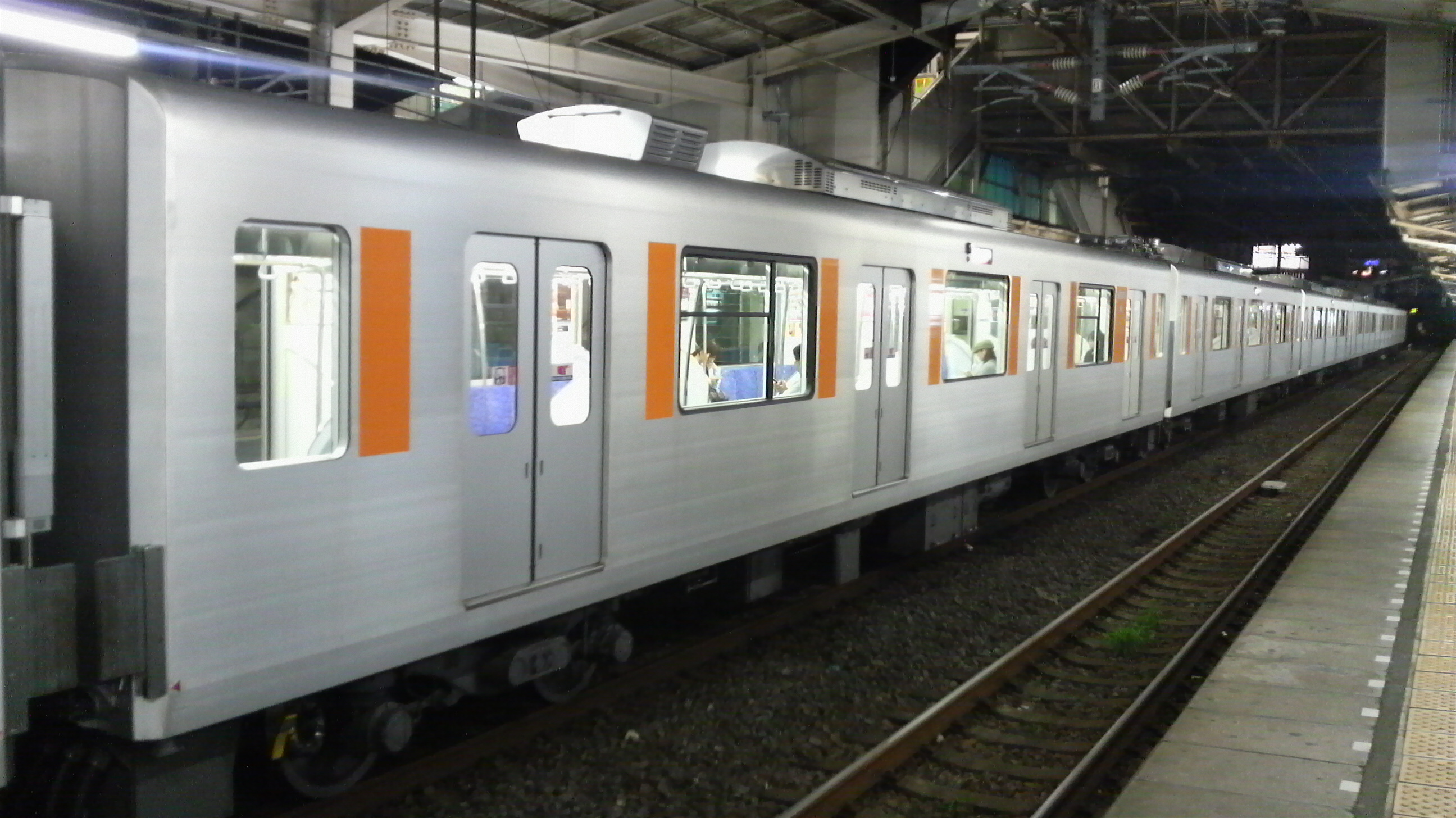 Tobu 50070 series EMU set 51075 at Kawagoeshi Station on the Tobu Tojo Line